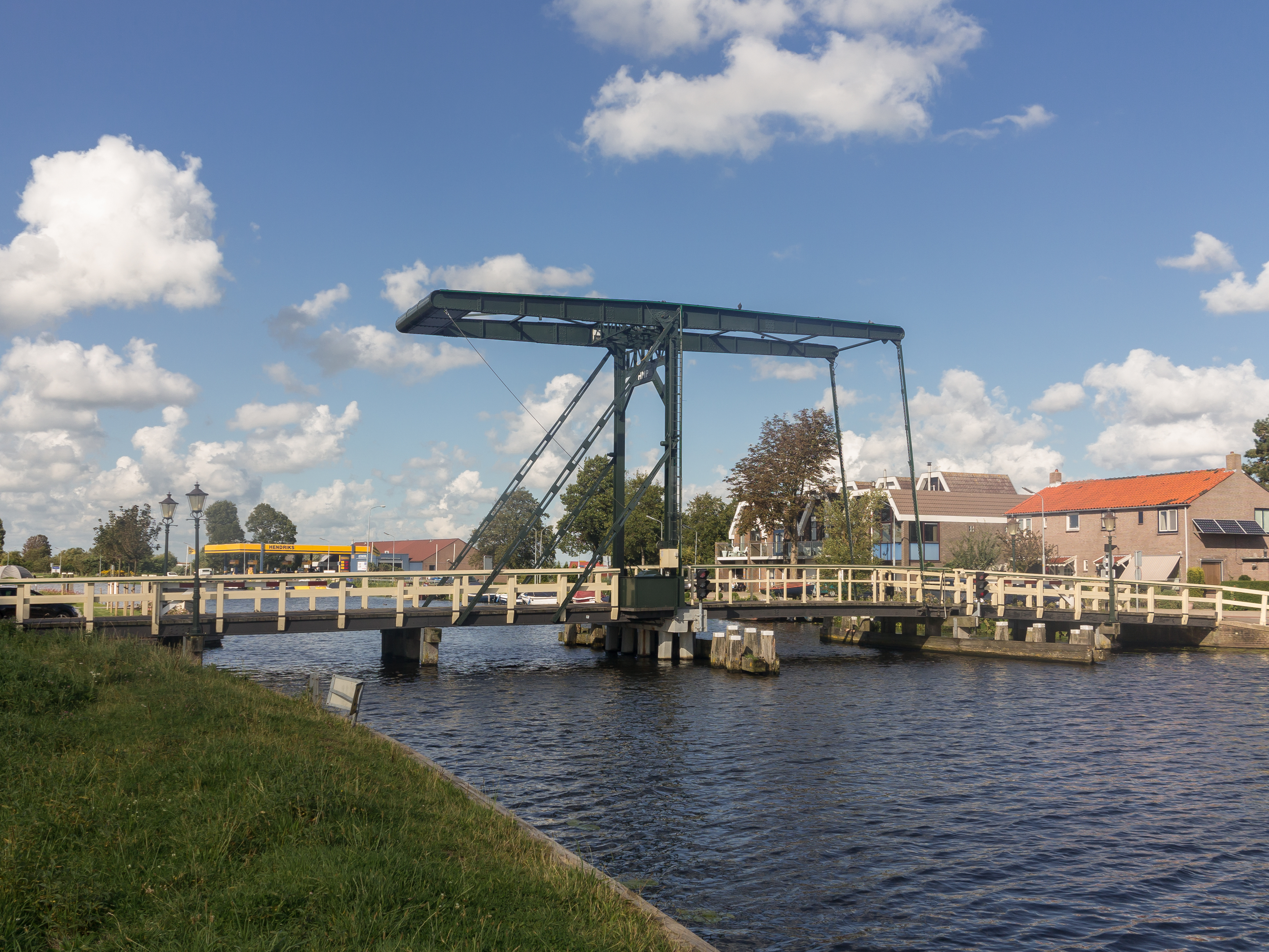 Vijfhuizen, bridge: de Vijfhuizerbrug